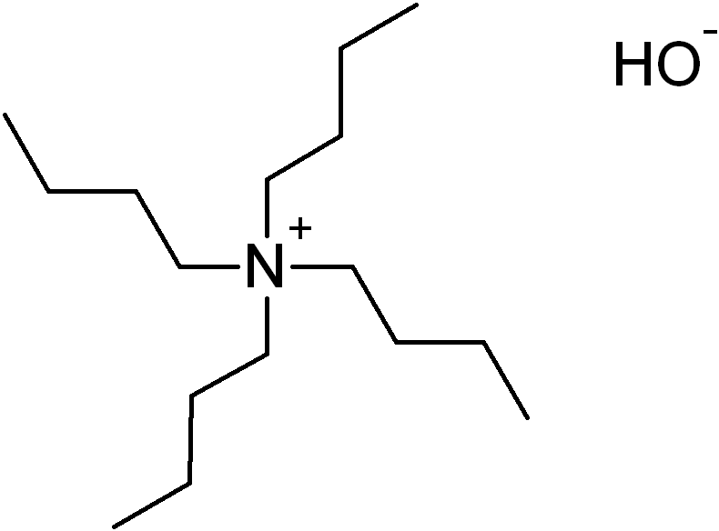 Chemical structure of Tetrabutylammoniumhydroxide